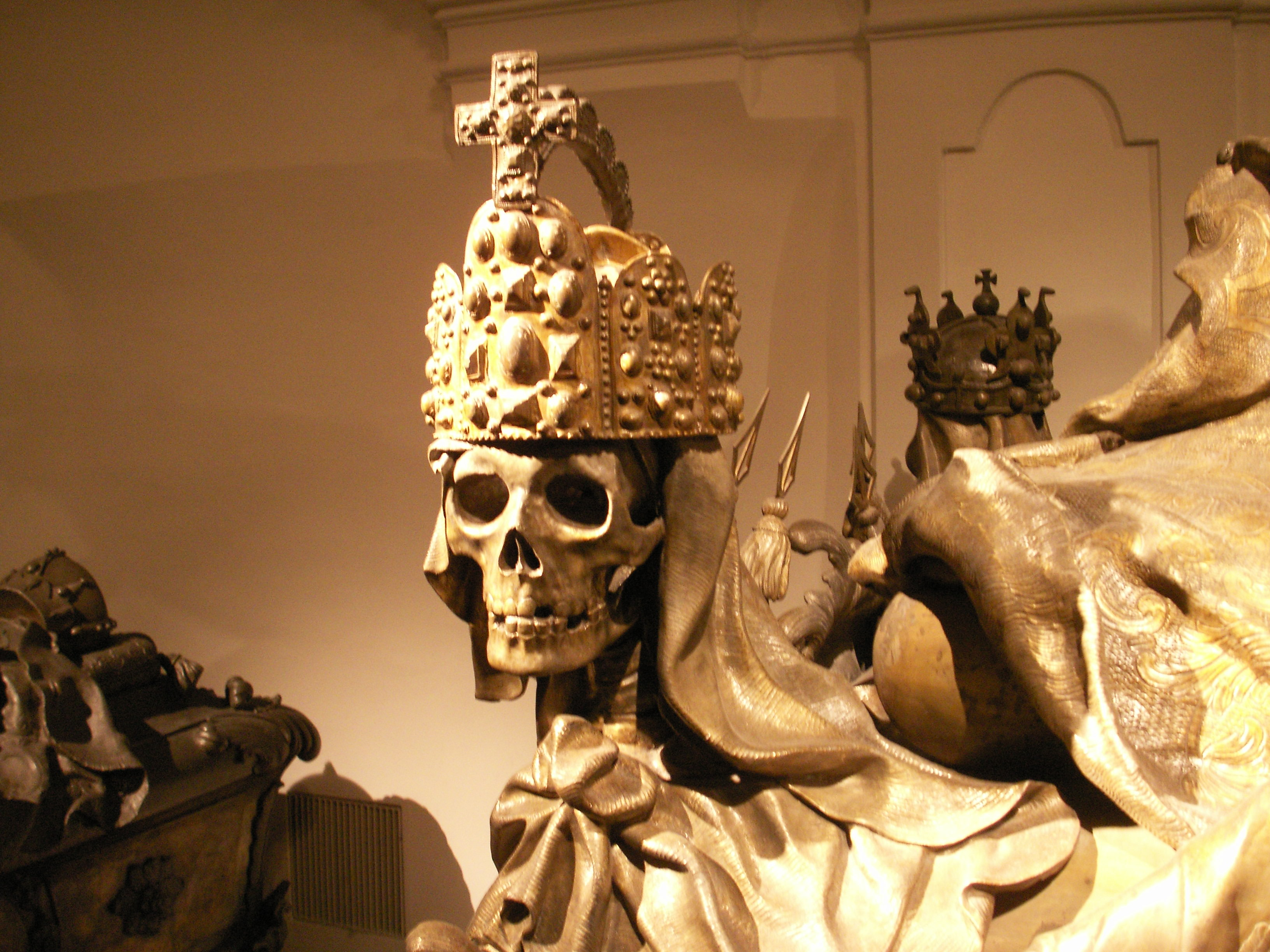 Kapuzinergruft, Wien, Sarkophag Kaiser Karl VI., showing the Imperial Crown (front) and the Crown of Saint Wenceslas (back) worn by skulls.